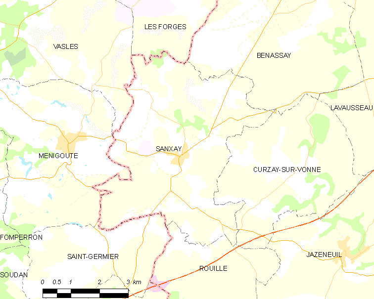 Map of French municipality Sanxay